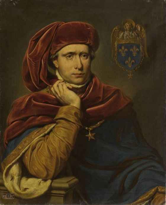 This painting belongs to the Portraits of Kings of France, a series of portraits commissioned between 1837 and 1838 by Louis Philippe I and painted by various artists for the Musée historique de Versailles.